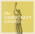 Democracy Award logo by "National Endowment for Democracy" (NED)